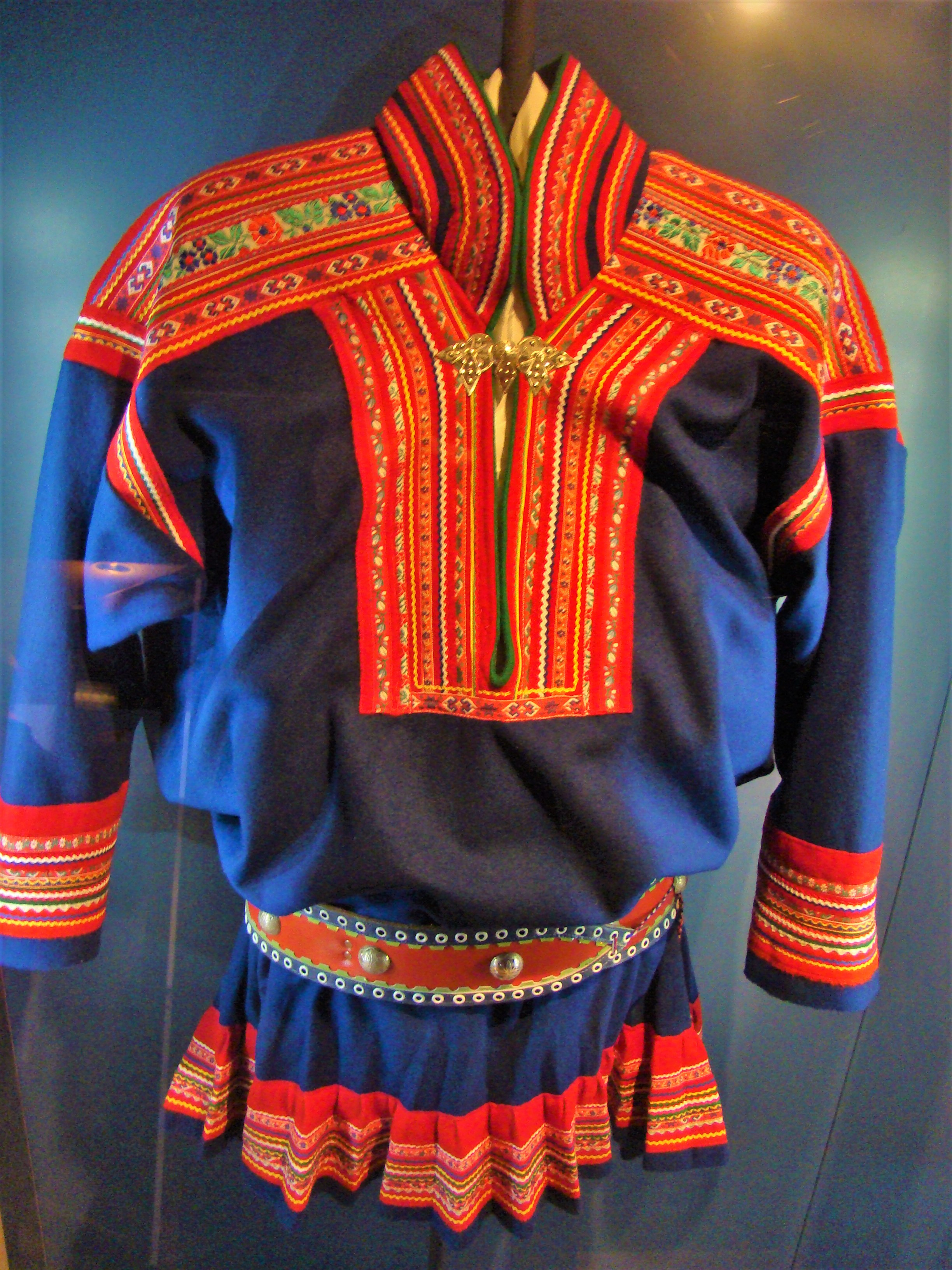 Sami clothing in the Arctikum museum, in Rovaniemi, Finland.